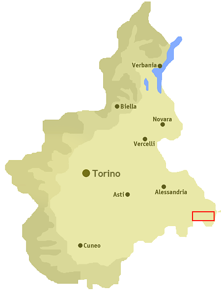 Position of val Borbera in Piedmont (Italy)